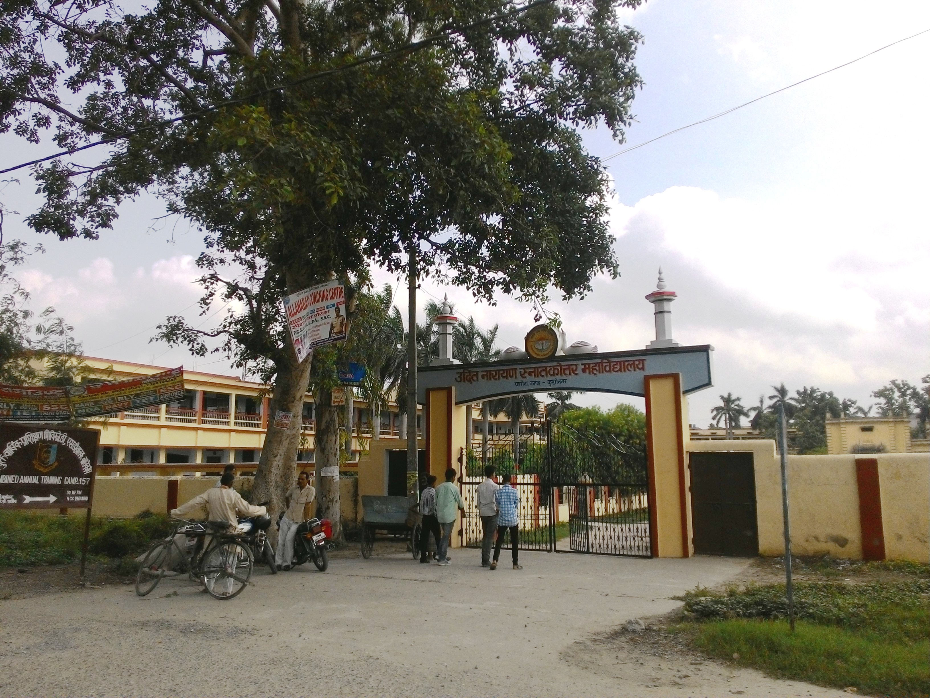 Front gate of Udit Narayan Post Graduate College, Padrauna